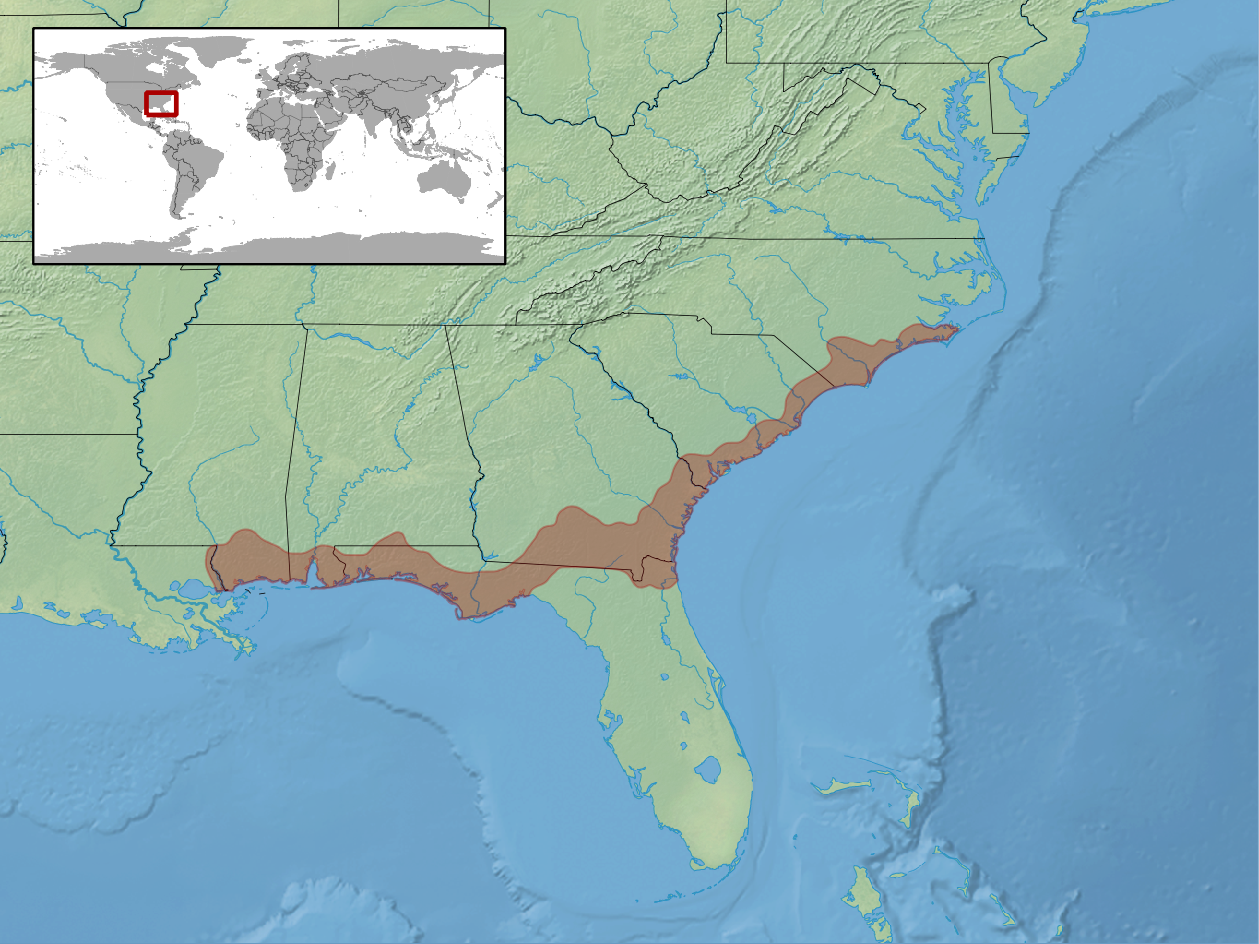 geographic distribution of Ophisaurus mimicus (Native: United States)